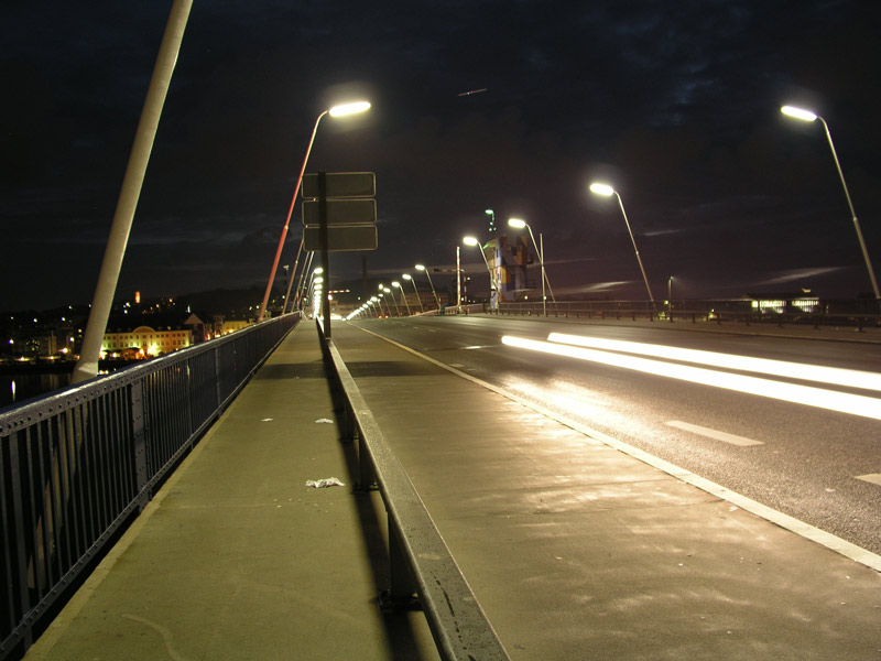 The Limfjordsbroen (Limfjords Bridge) as seen from above